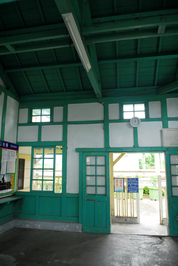 RihNan Station is a local train station of Taiwan's Western main rail line. It's located within the boundary of DaJia Town, TaiChung County. This photo shows the wooden interior of the station building kept as close as its original design.